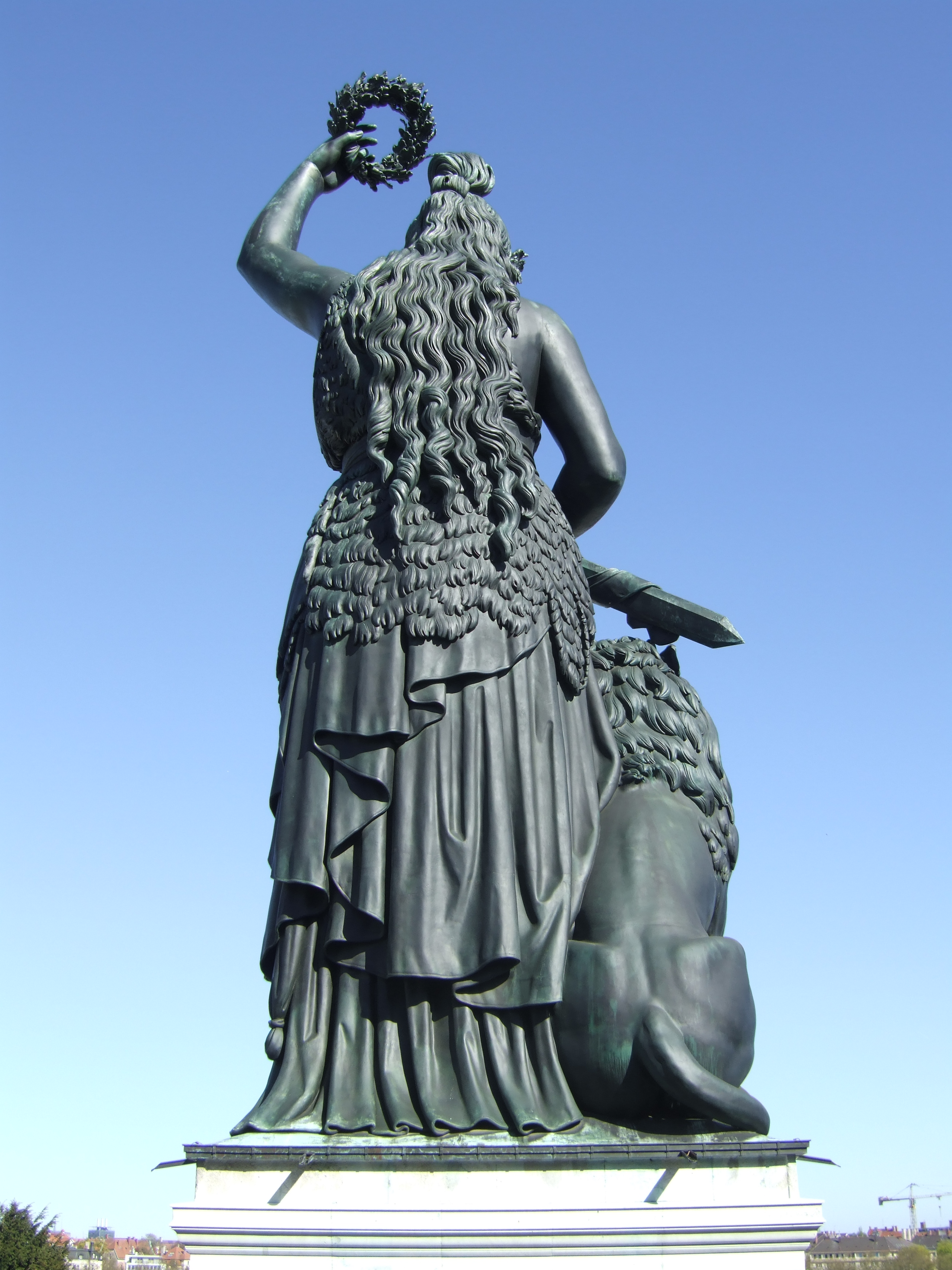 Rear view of the Bavaria statue, Munich (2007)